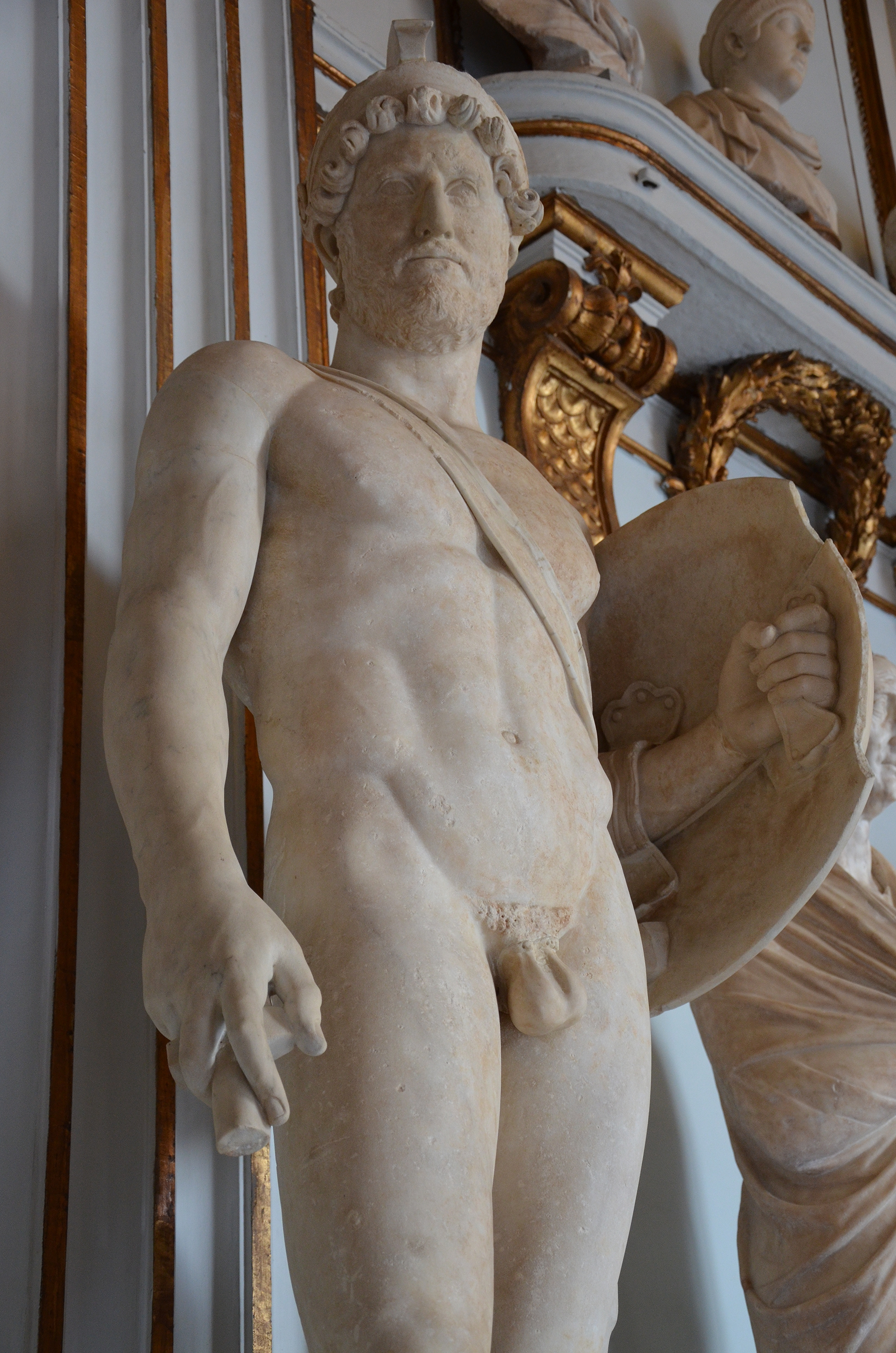 Statue of Hadrian as Mars, god of Mar, from Italy, AD 117–125, Capitoline Museums